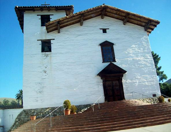 The facade of Mission San Jose